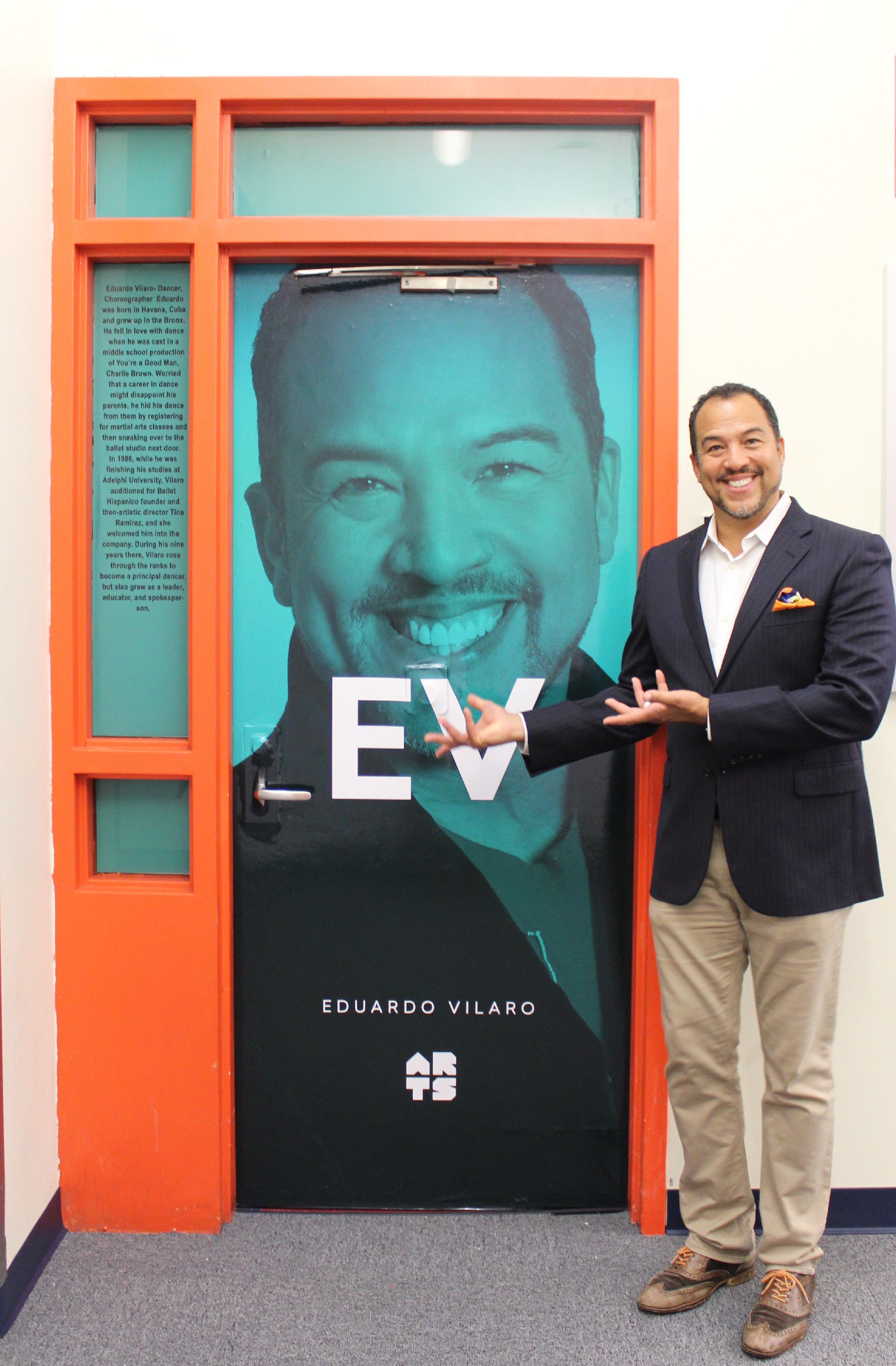 Eduardo Vilaro, Cuban-American artistic director and CEO of Ballet Hispánico since 2009, at the Bronx Arts Middle School in August, 2018